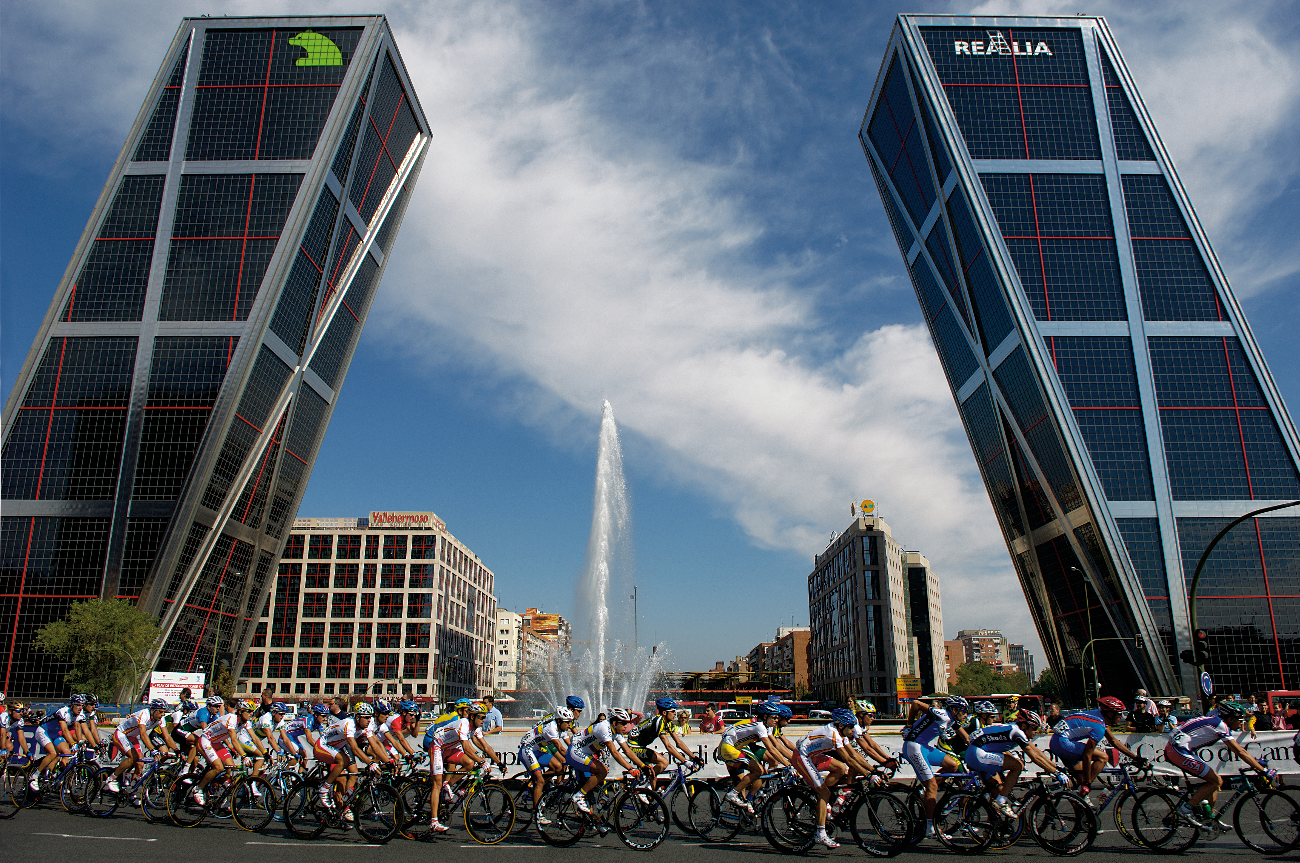 Kio Towers This photograph can be used for publications, including this copyright statement: “©PromoMadrid, author Max Alexander”. Esta fotografía puede usarse en publicaciones, incluyendo la declaración “©PromoMadrid, autor Max Alexander”.